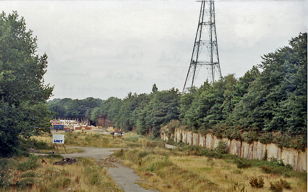 Crystal Palace High Level station (site/remains), 1983. View northward from Crystal Palace Parade, towards Nunhead and London on the ex-South Eastern & Chatham Nunhead - Crystal Palace branch, which closed 20/9/54. The station had been large and elaborate, rivalling the Palace across the road, to which it was connected by a subway. The mast on the right is the BBC Television transmitter, which is visible all over South London. The station site is being re-developed.